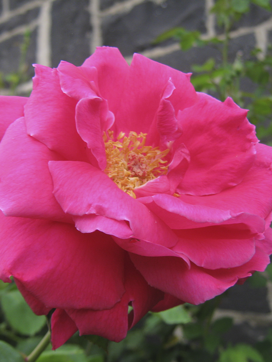 Rose 'Janet Morrison', Hybrid Tea by Alister Clark 1936; photographed in the Alister Clark Memorial Rose Garden, Bulla, Victoria